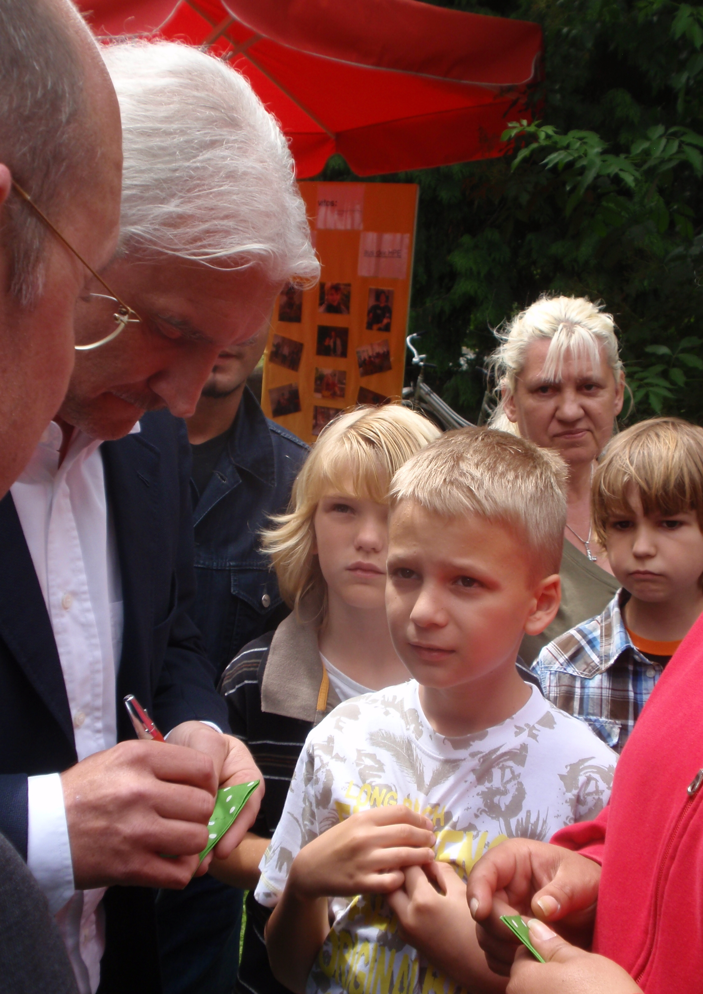 The German football coach Rudi Völler in June 2009 between young fans (in Riedstadt, Germany)